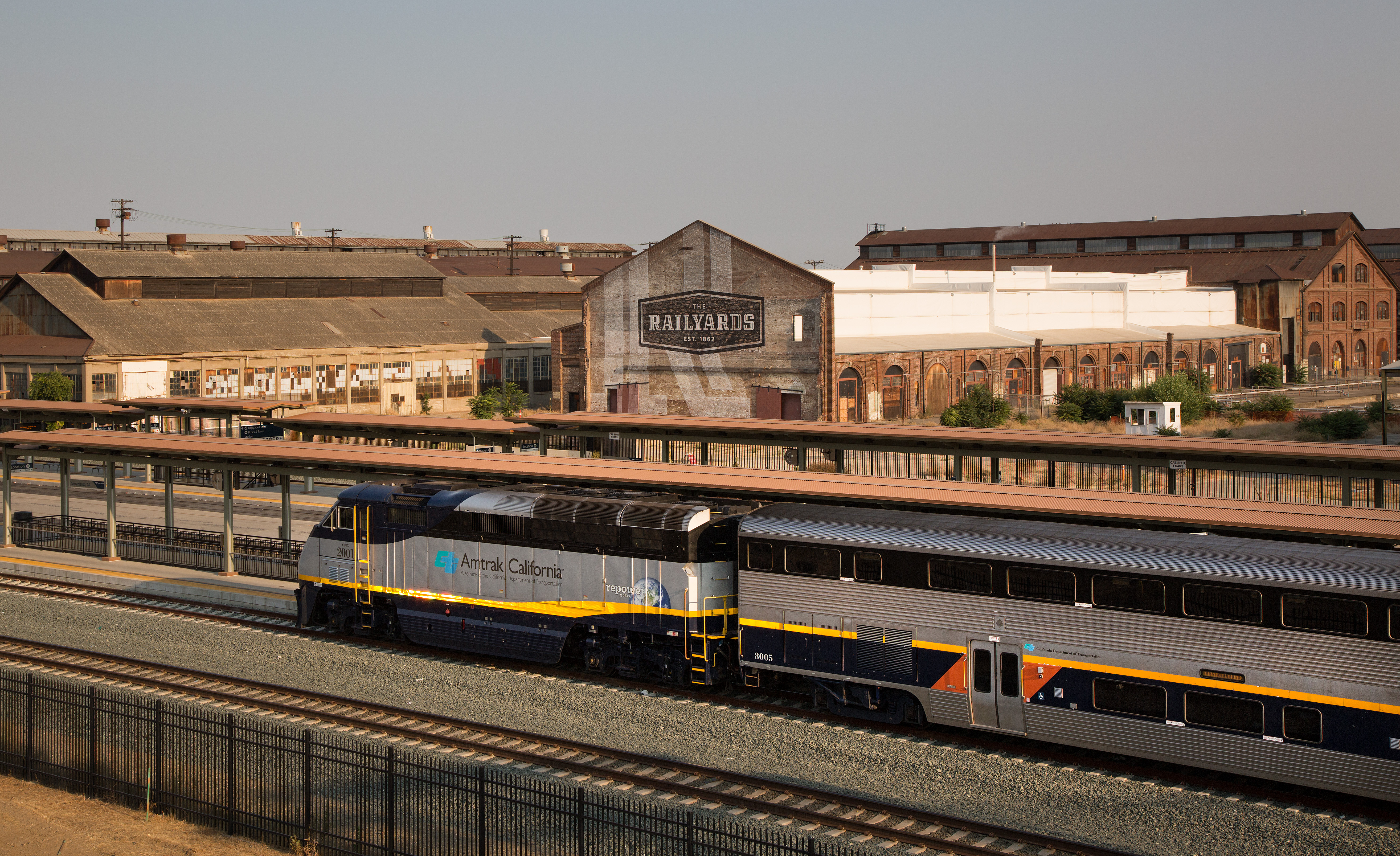 A Capital Corridor train at the new Sacramento station platforms in August 2016, viewed from one of the new bridges over the former rail yards. The train is #733, the 10:30am departure to Oakland Coliseum.